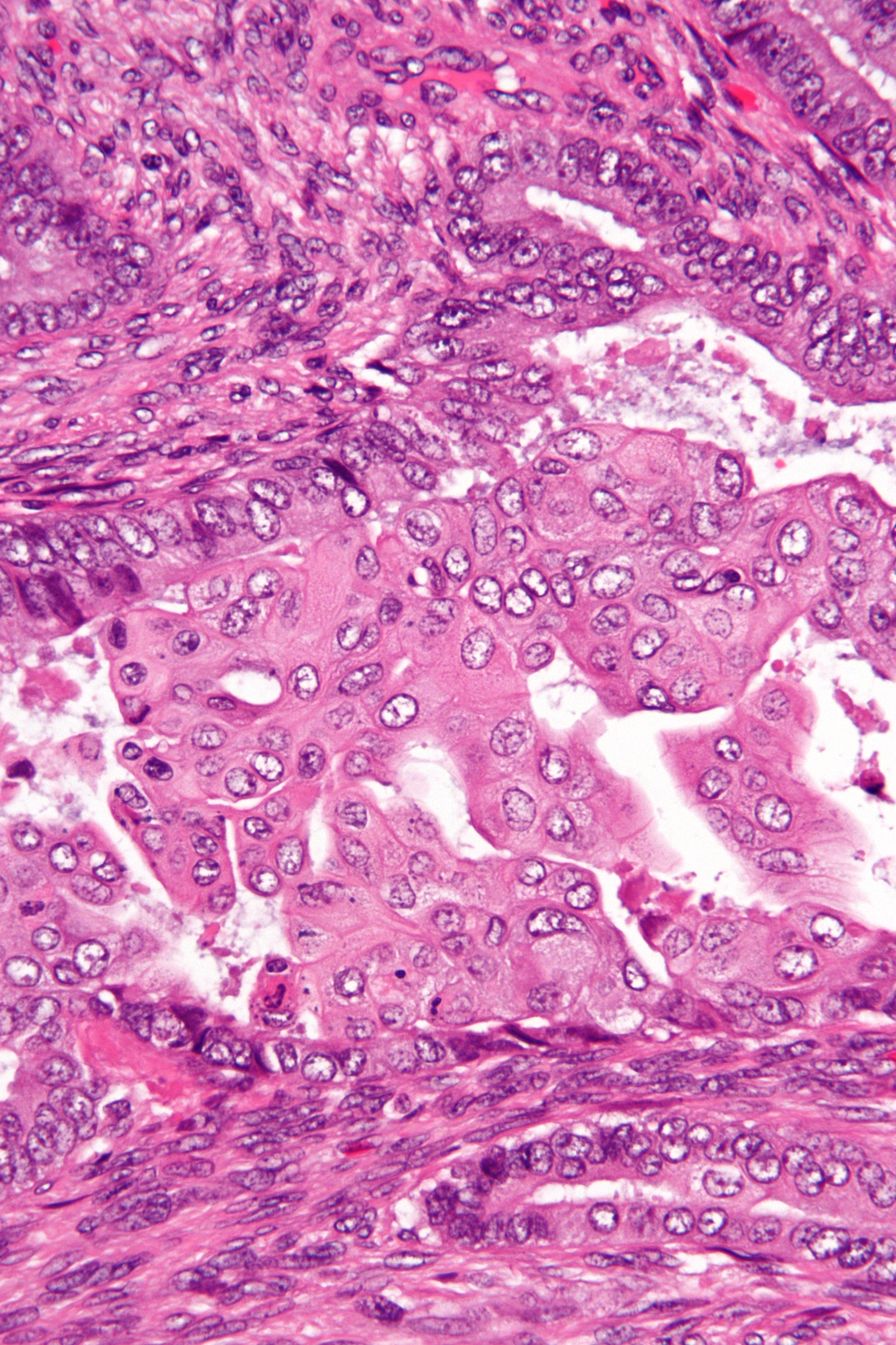 Very high magnification micrograph of an atypical polypoid adenomyoma. H&E stain. Related images Intermed. mag. Intermed. mag. High mag. Very high mag.